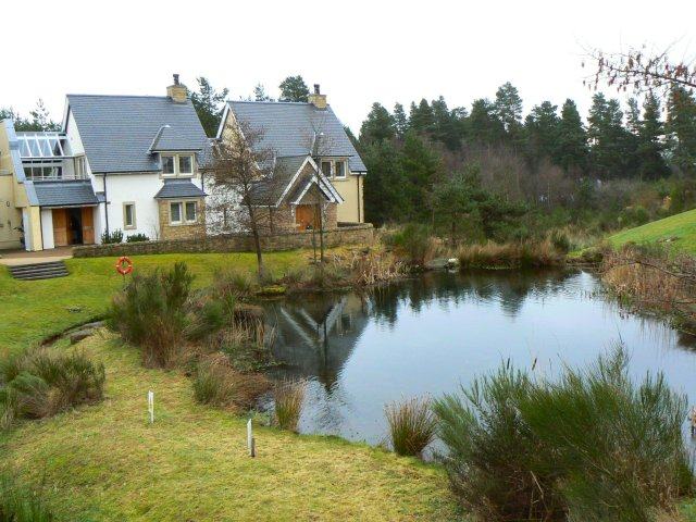 Glenmor village pond An attractive, if artificial, feature of the 'seasonal ownership' village.